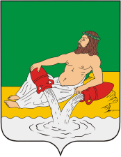 Velikiy Ustyug (Vologda oblast), coat of arms (2000)